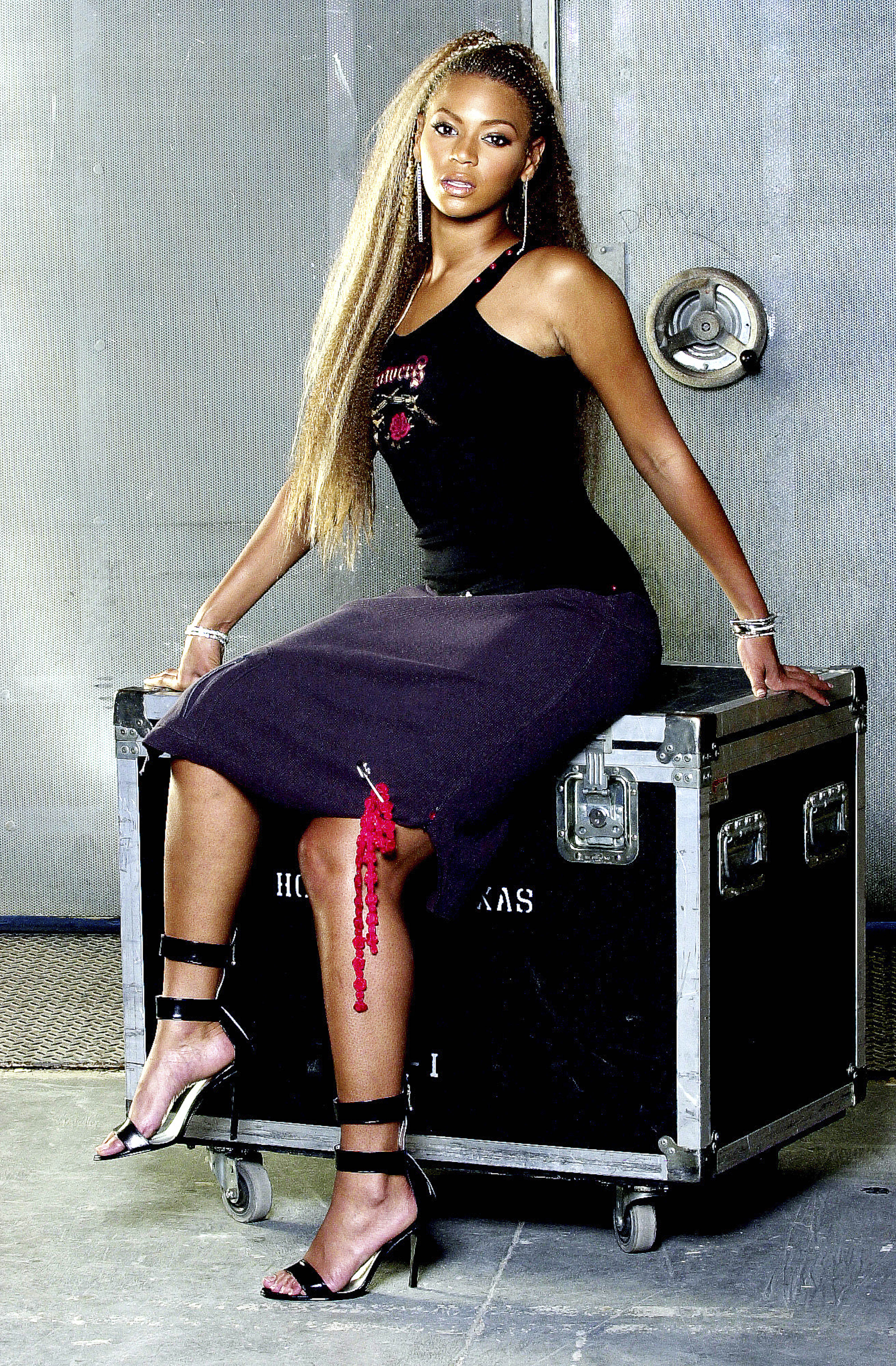 The world's biggest girl pop group, Destiny's child. Beyonce Knowles 19, Photographed in Houston, Texas.